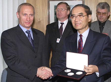 PARIS. President Putin with UNESCO Director-General Koichiro Matsuura.